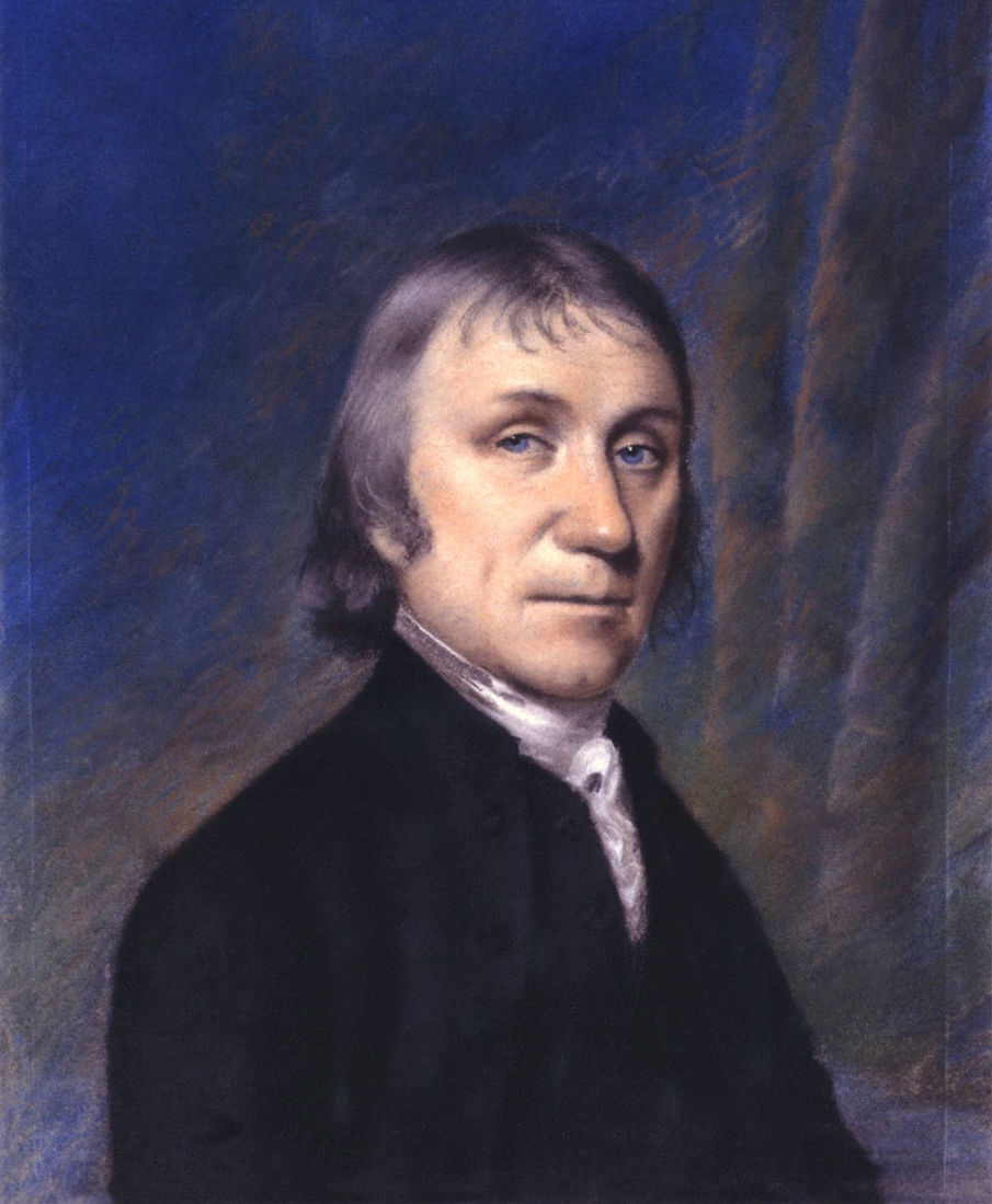 Portrait of Joseph Priestley. Pastel, original dimensions: 9 1/2 in. x 7 3/8 in.